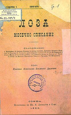 "Lozia" magazine of the "young literary society"